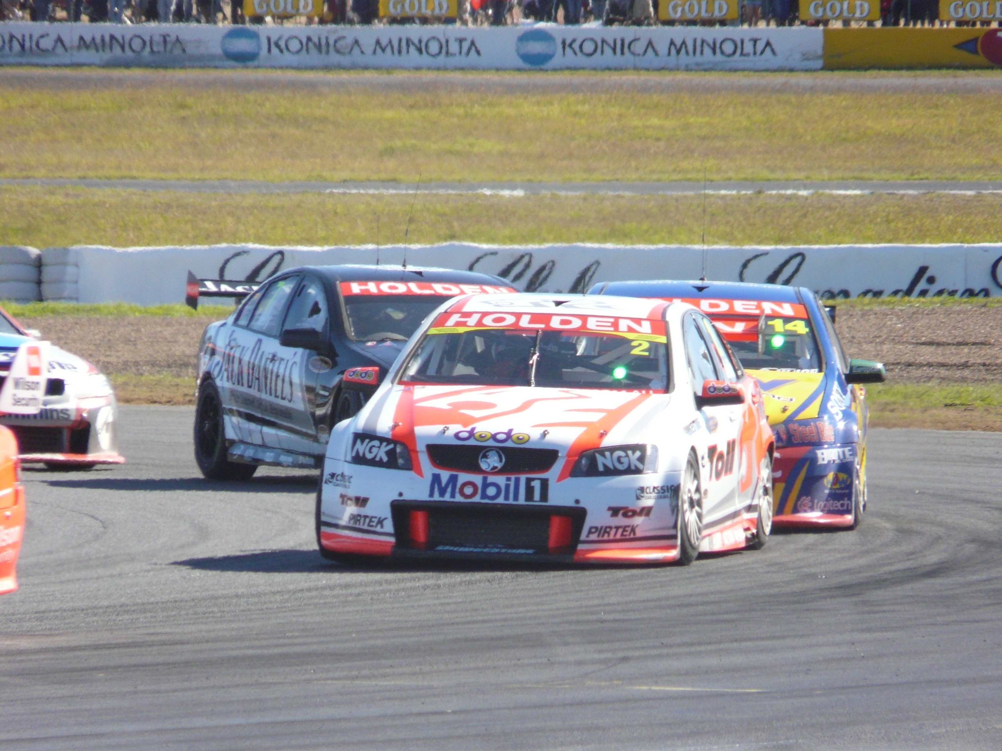 Mark Skaife, Turn 6, Queensland Raceway 2008